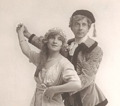 Theatrical postcard of Daisy Burrell (born 1897) and William Spray appearing in an English production of Franz Lehár's operetta Gipsy Love (1913).